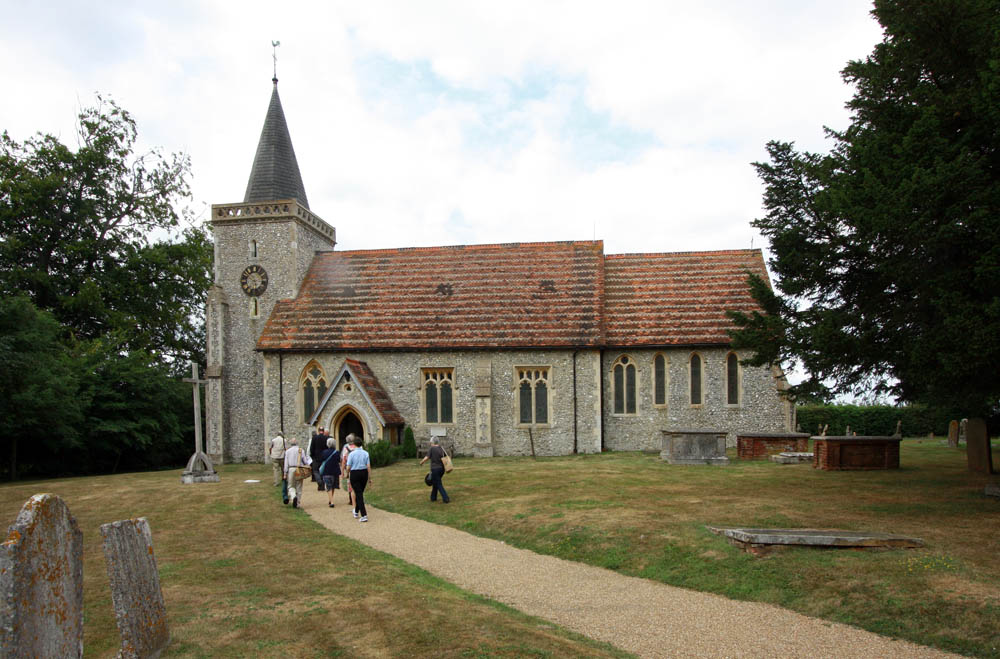 St Leonard, Chelsham, Surrey, near to Farleigh, Surrey, Great Britain.